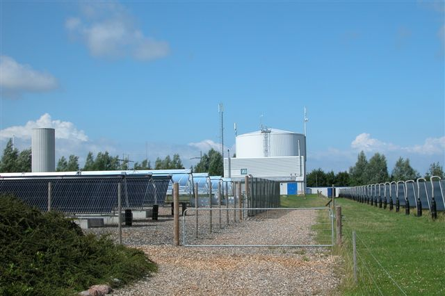 Solarheatings park, Marstal